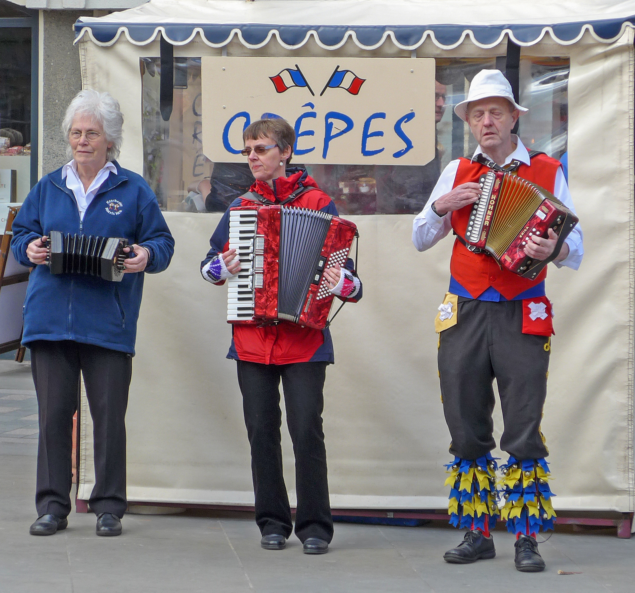 Joint Morris Organisation Day of Dance, York